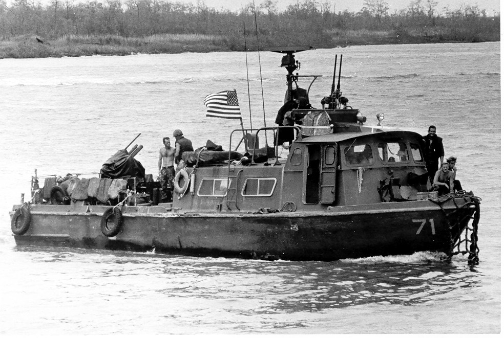 Fast Patrol Craft (PCF, Swift boat) during riverine operation in Vietnam